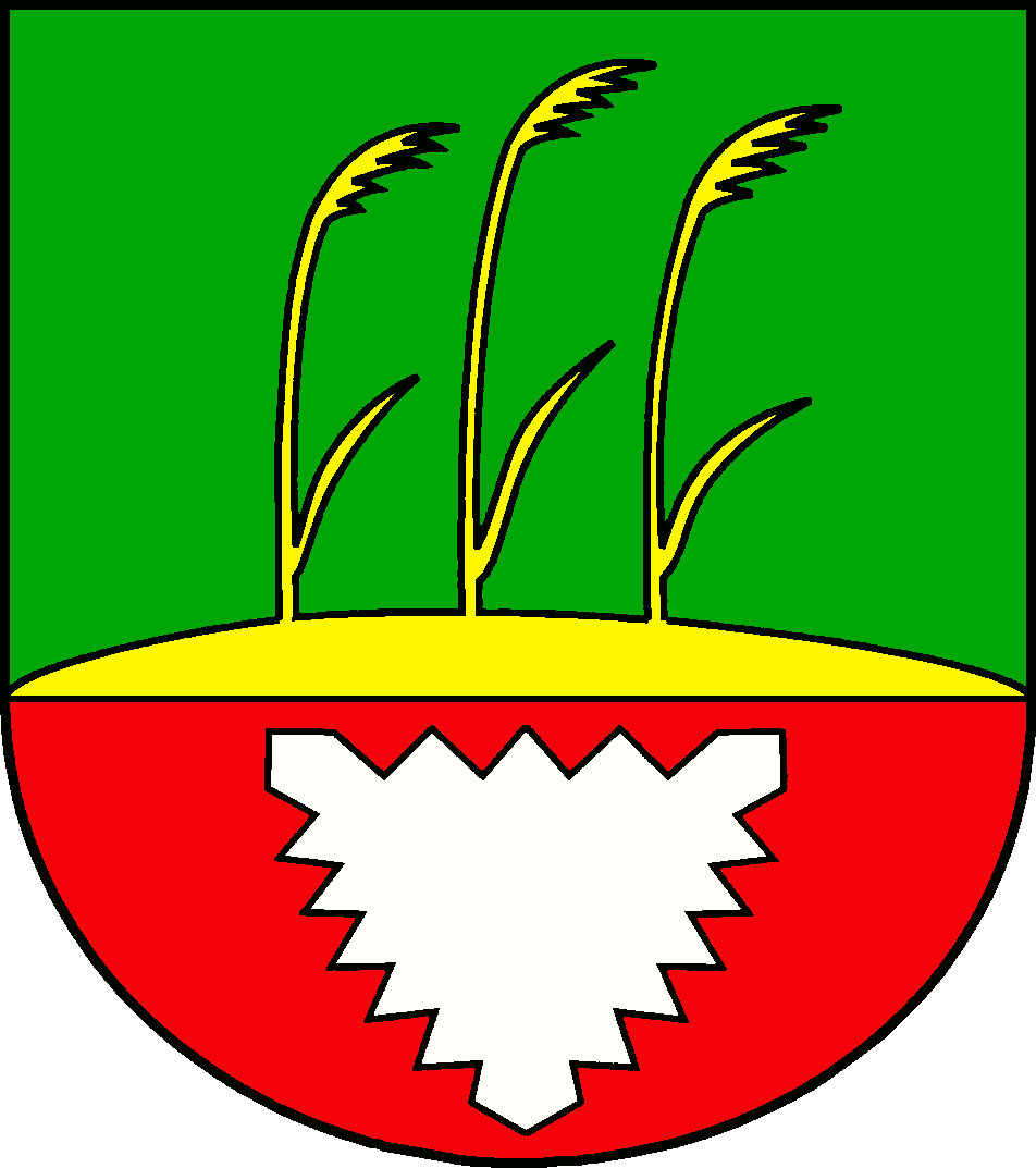 Coat of arms of the municipality Rethwisch in Schleswig-Holstein, Germany.